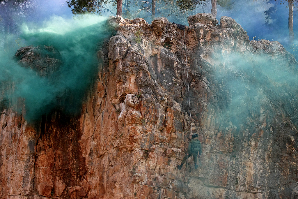 A 669 Airborne Combat Evacuation & Rescue Unit soldier demonstrates cliff-rescuing in the graduation ceremony of new soldiers of the unit. Photo by: Carmel Horowitz. Featured as Photo of the Day on March 25, 2012 The Israel Defense Forces Facebook page The Israel Defense Forces blog Follow us on Twitter